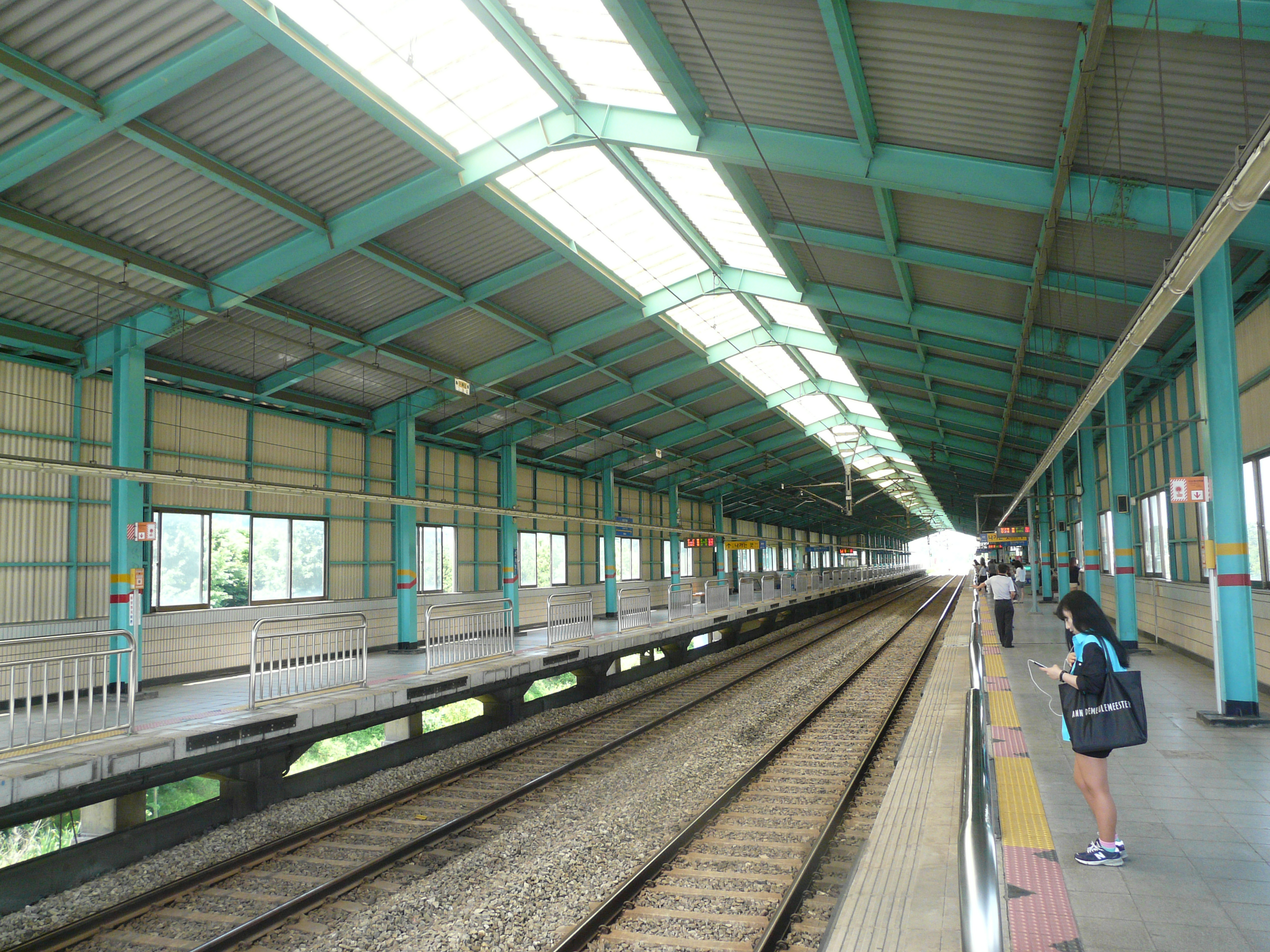 Choji Station , Ansan, Korea